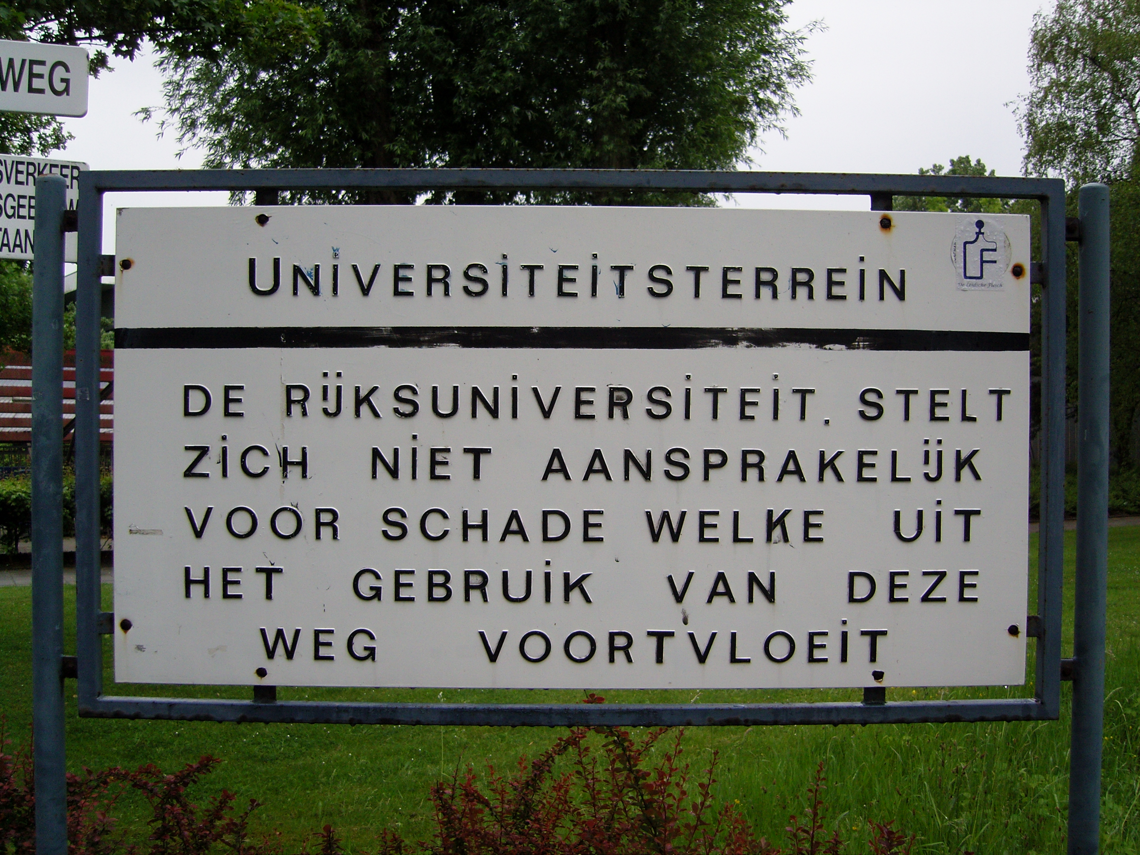 A sign at the University of Leiden where the letter IJ is written as a broken U with two dots